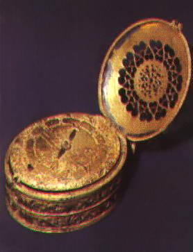 An antique clock-watch (taschenuhr) in Philadelphia Memorial Hall, USA, made in the 16th century by Peter Henlein of Nürnberg, Germany. This is believed to be the oldest clock-watch in existence (National Geographic magazine, Vol.92, 1947, p.422)